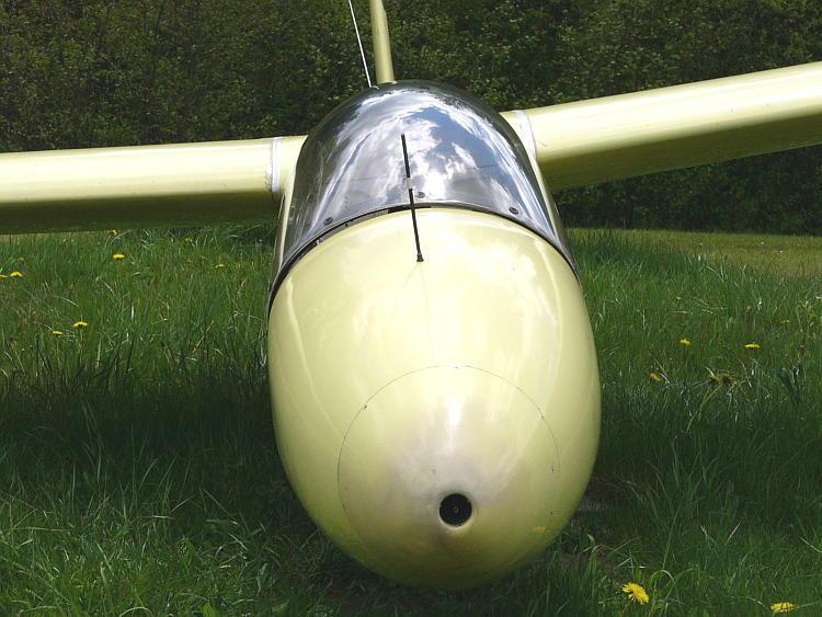 I took this photo of a Schweizer SGS 1-34 at Kars/Rideau Valley Air Park on 24 May 08.